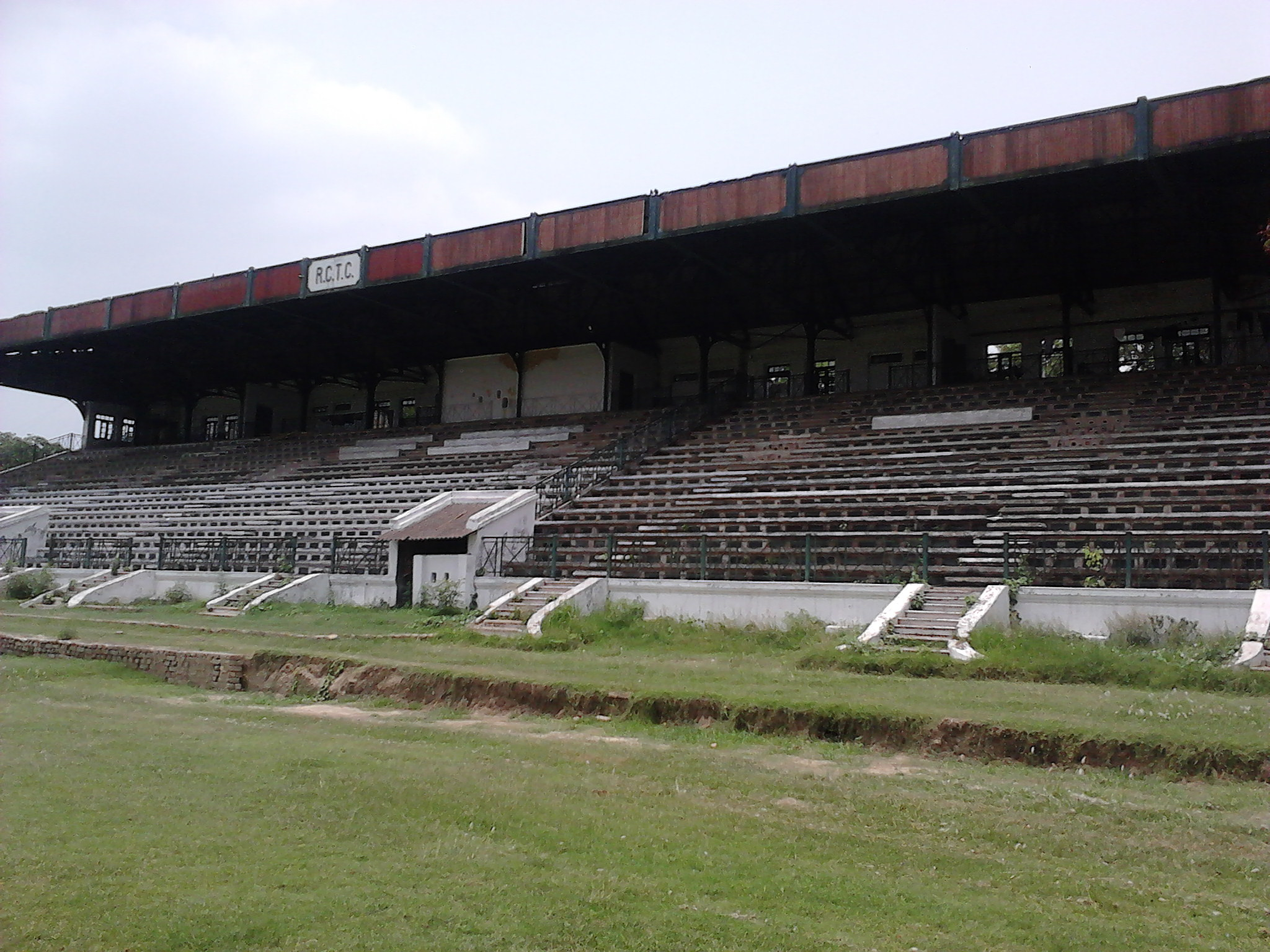 Col. Willkinson (Inspector of Courses in England) under the supervision of Hugh Gentor designed the modern race course in Barrackpore in 1927. The Grandstand consist of two stadia. It is now defunctioning as racecourse but using by the Indian army.